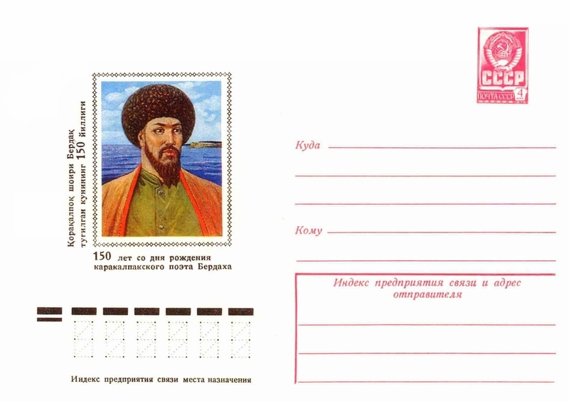 1977 postal cover of the Soviet Union featuring a portrait of Berdakh.